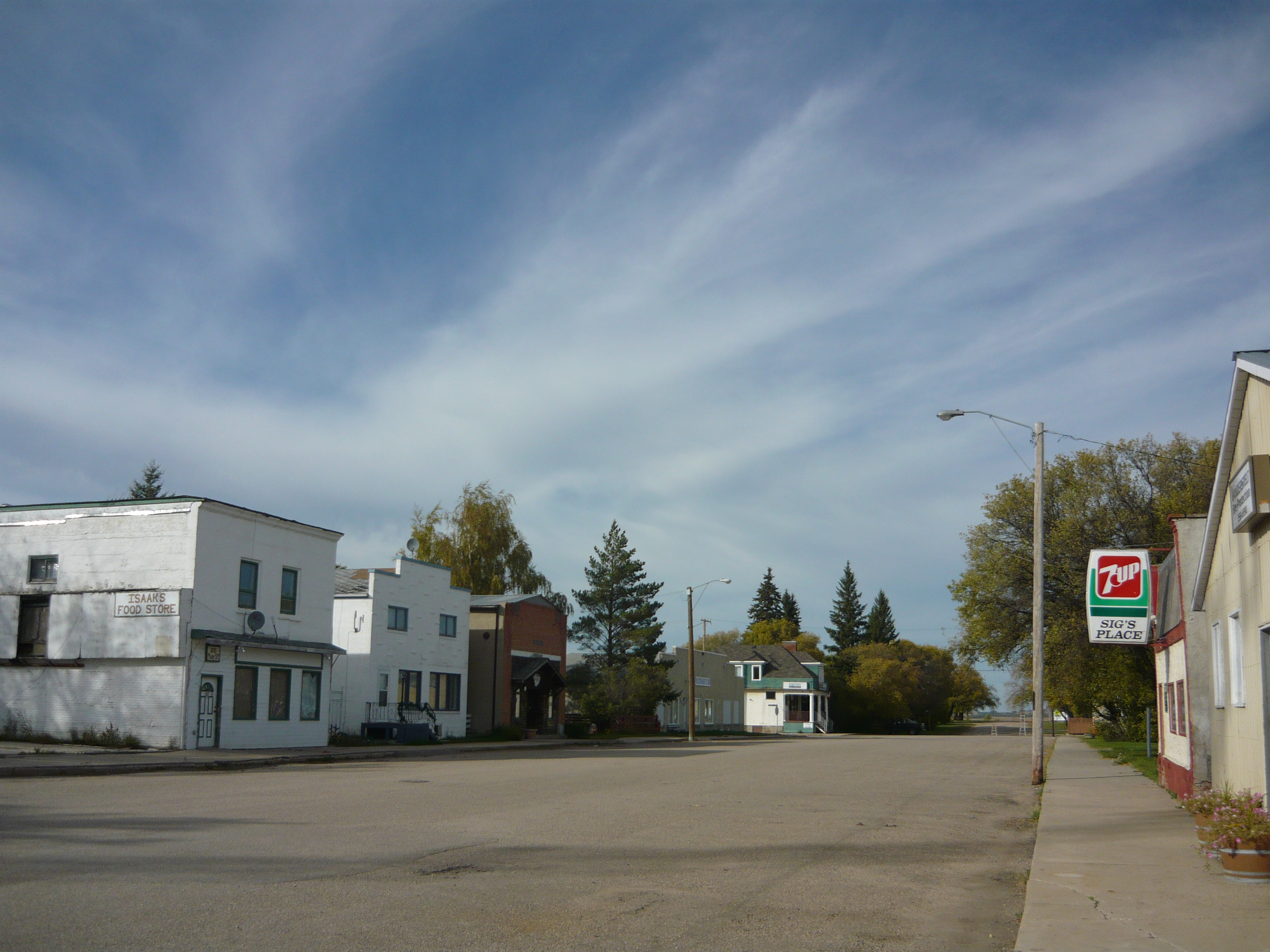 Looking northward on Main Street (from Railway Avenue) in Vonda, Saskatchewan, Canada.